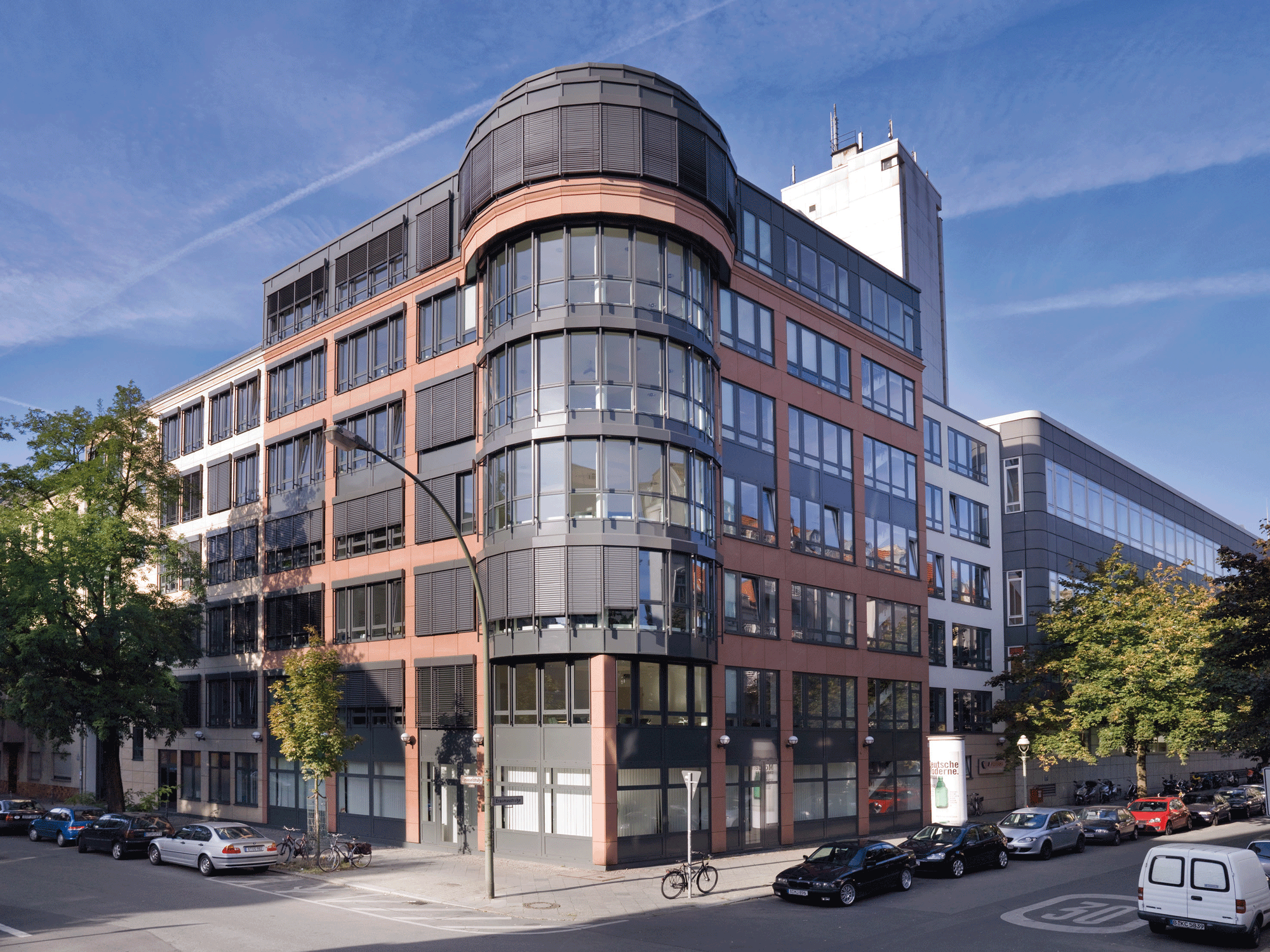 This building holds Atotech's head office in Berlin with integrated R&D and TechCenters for Electronics and General Metal Finishing. It is located at Erasmusstr. 20 in 10553 Berlin Moabit in Germany.